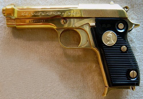 Tariq 9x19 Presentation Pistol